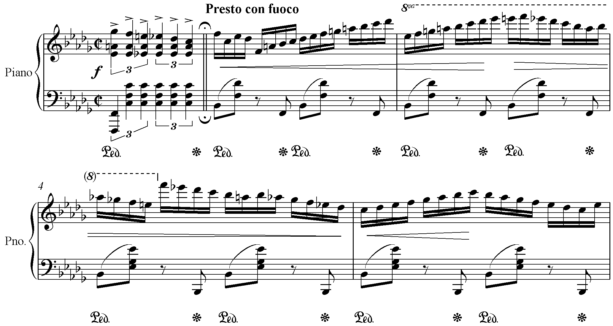 5 first bars of Chopins prelude 16 op. 28